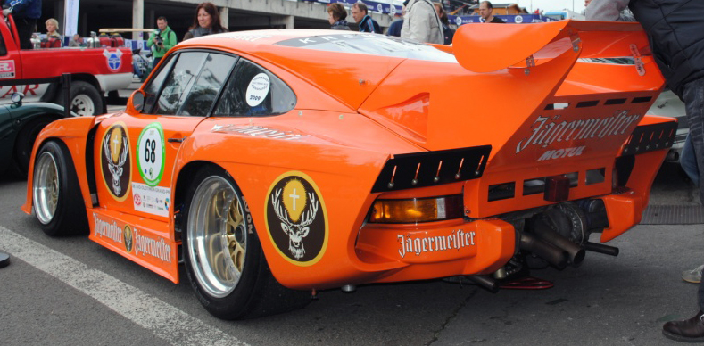 Kremer-Porsche 935 in "Jägermeister" livery at the 2011 Spa Classic